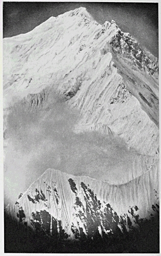 1921 photo from Howard-Bury, C. K. (1922). Mount Everest the Reconnaissance, 1921 (1 ed.). New York, Longman & Green (15 August 1881 – 20 September 1963) "The Summit" (North-east arete, telephotograph)